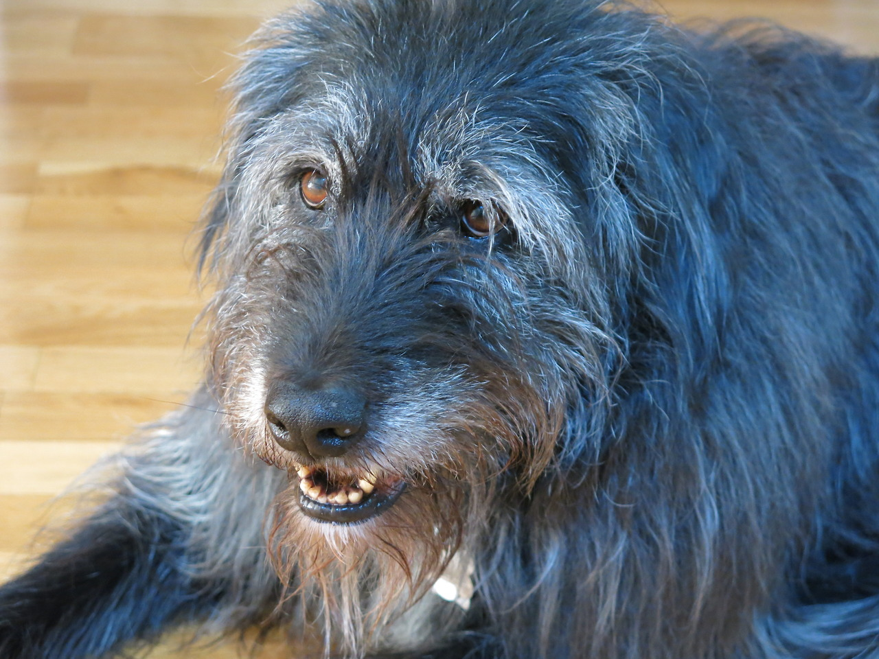 A shaggy dog, the archetypical subject of long-winded, pointless stories